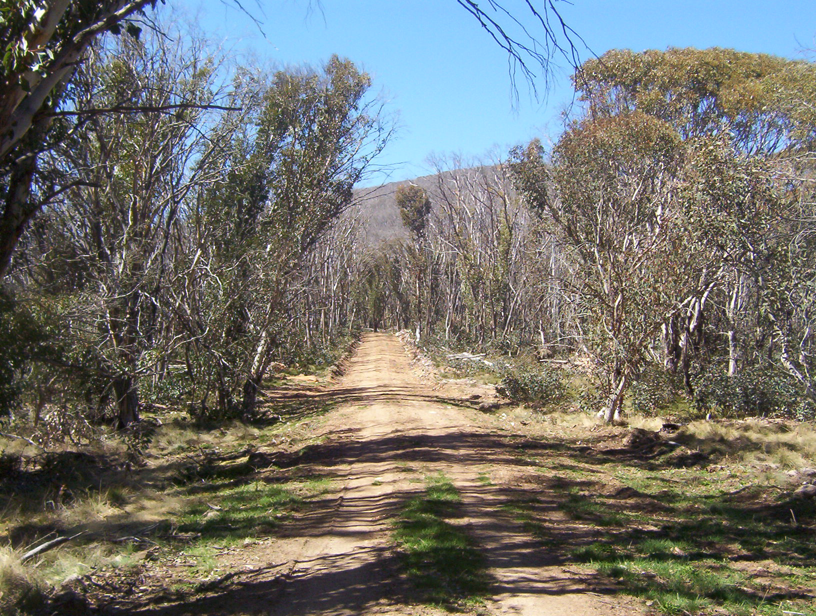 Description: A picture taken, of a walking trail in Namadgi National Park. Source: Own work Date Taken: October 5th 2006 Author: Dfrg.msc Uploader: Dfrg.msc Permission: Given